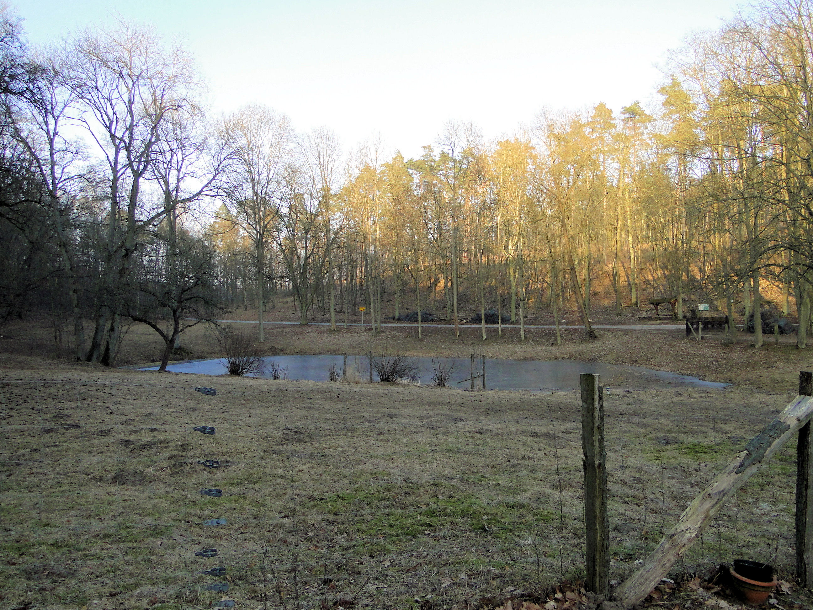 Pond near forester's lodge in Kleesten, district Parchim, Mecklenburg-Vorpommern, Germany